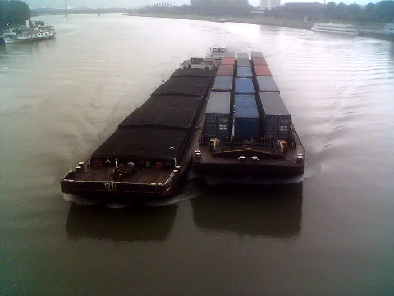 Austria, Linz, Danube